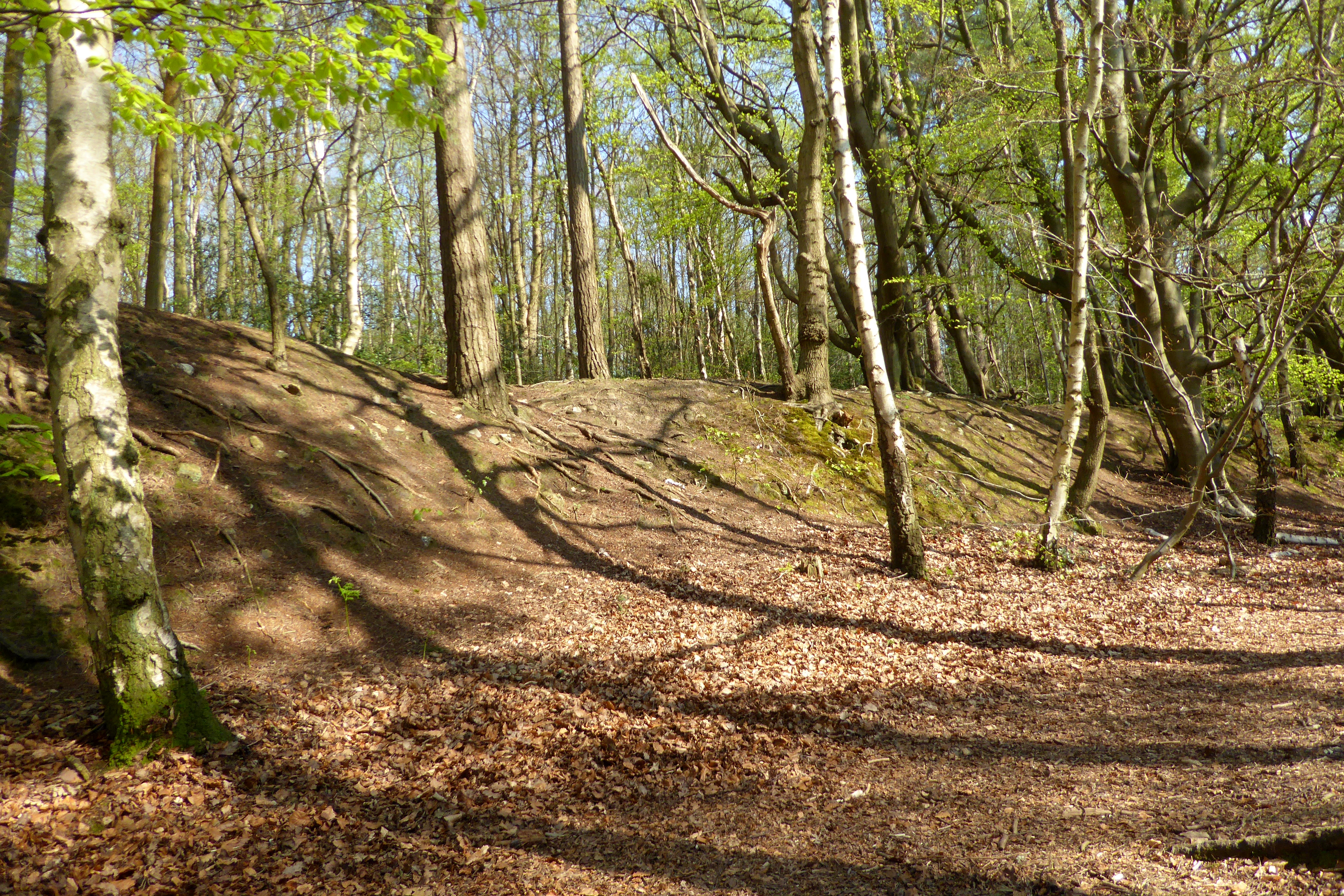 Ramparts on the southwestern part of Oldbury Hillford in Kent.